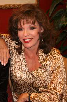 Actor Joan Collins